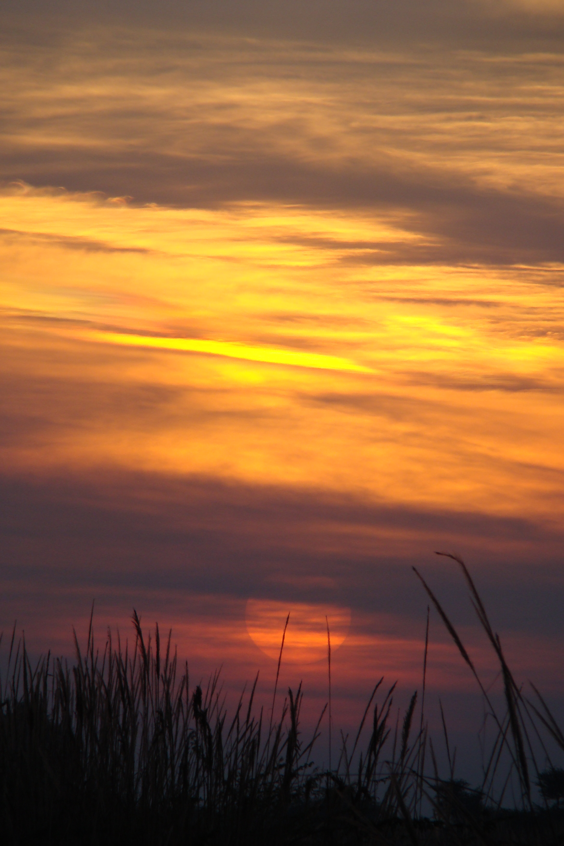 This is the photo taken of a beautiful sunset at Indira Gandhi Canal. You can see the different colours with their changing patterns in this photo.